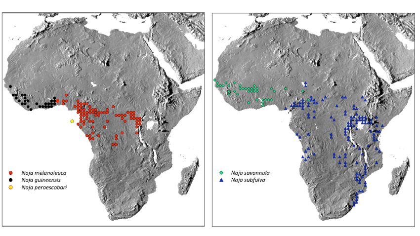 Distribution of the five species of the N. melanoleuca complex.